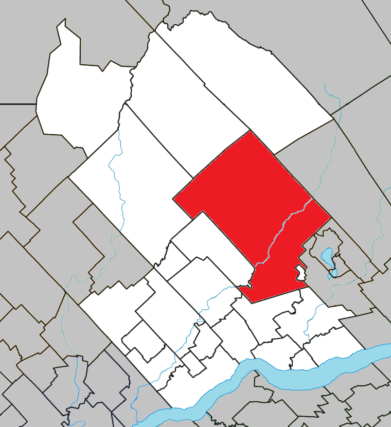 Location of Saint-Raymond, Quebec within Portneuf Regional County Municipality.